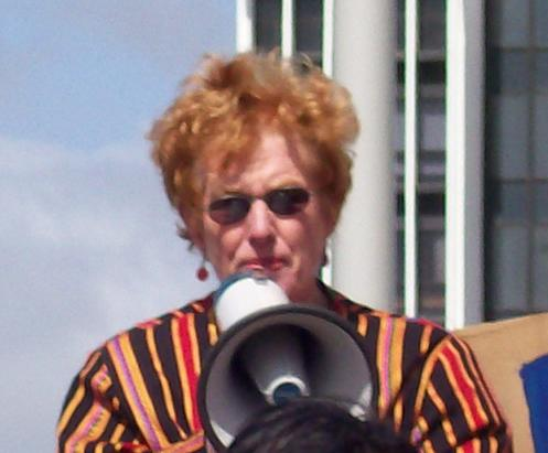 Heather Tanguay speaking at "Free Burma" demonstration, The Square, Palmerston North, 6 October 2007.